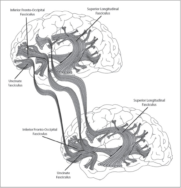 Mindmelding experiment. (The owner of the brain on top can experience the conscious representations of the owner of the brain on the bottom. What the person on top experiences cannot be his own conscious perceptual representations, which reside in his temporal and parietal lobes, since the connections to those have been severed. Diagram by Katie Reinecke.)